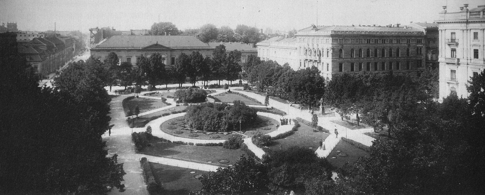 Wilhelmplatz and Wilhelmstraße (left) in Berlin.